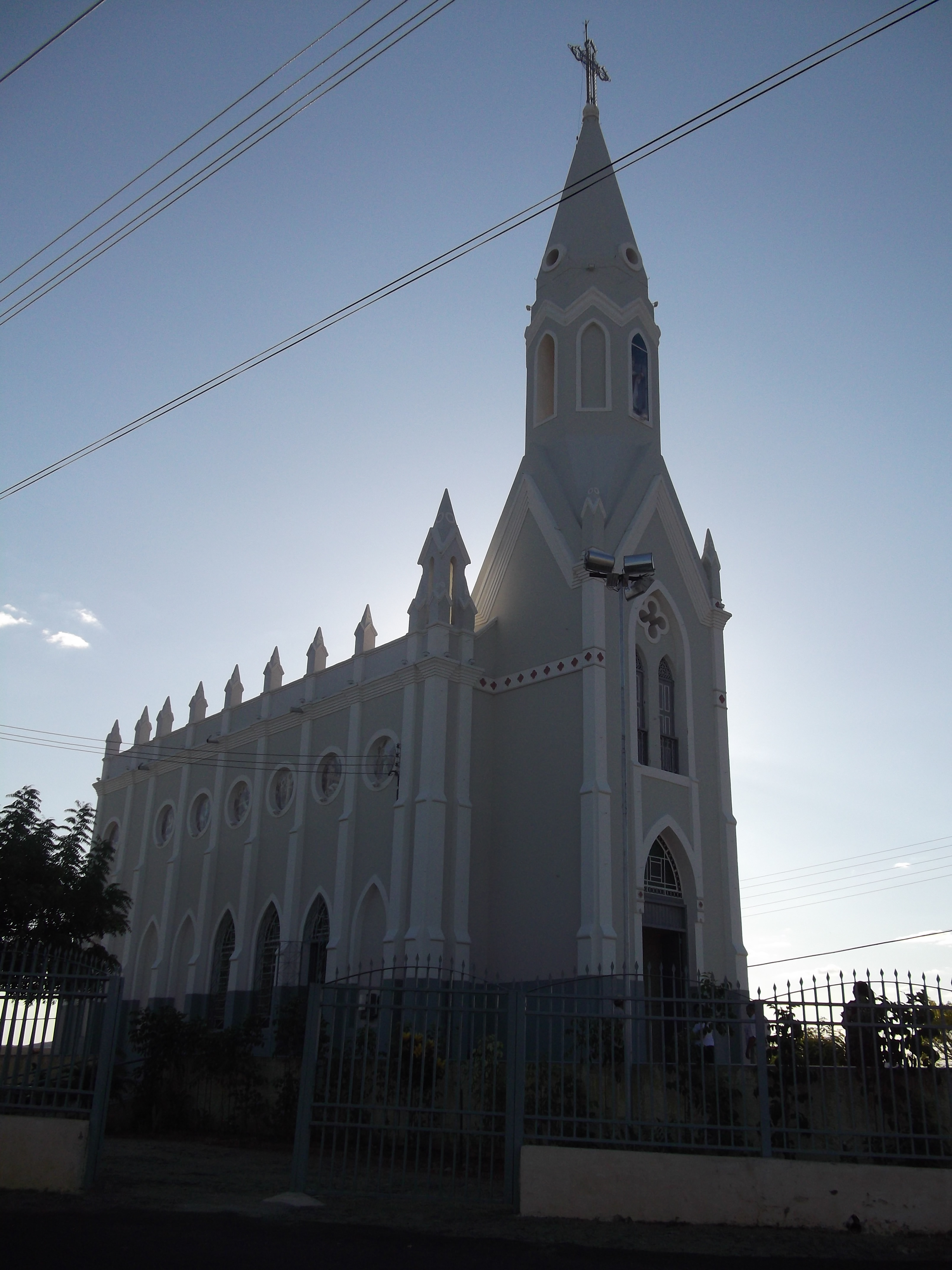 Christ the King Church, Canindé, Ceará State, Brazil